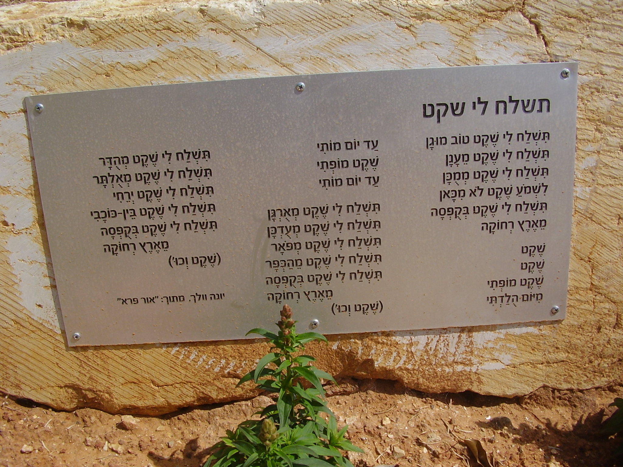 yona wallach sculpture garden in kiryat ono, israel